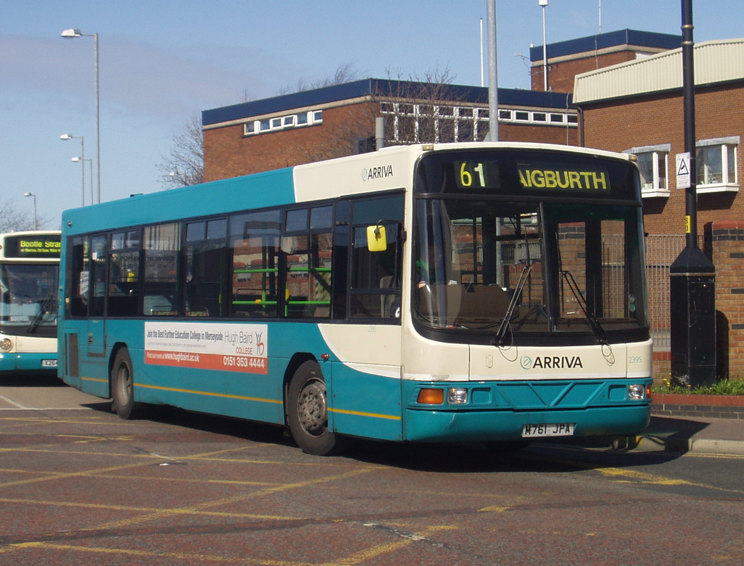 Arriva Dennis Lance / Wright Pathfinder, Washington Parade, Bootle.